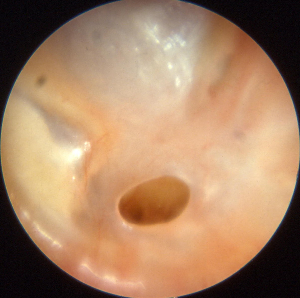 Otitis media chronica mesotympanalis